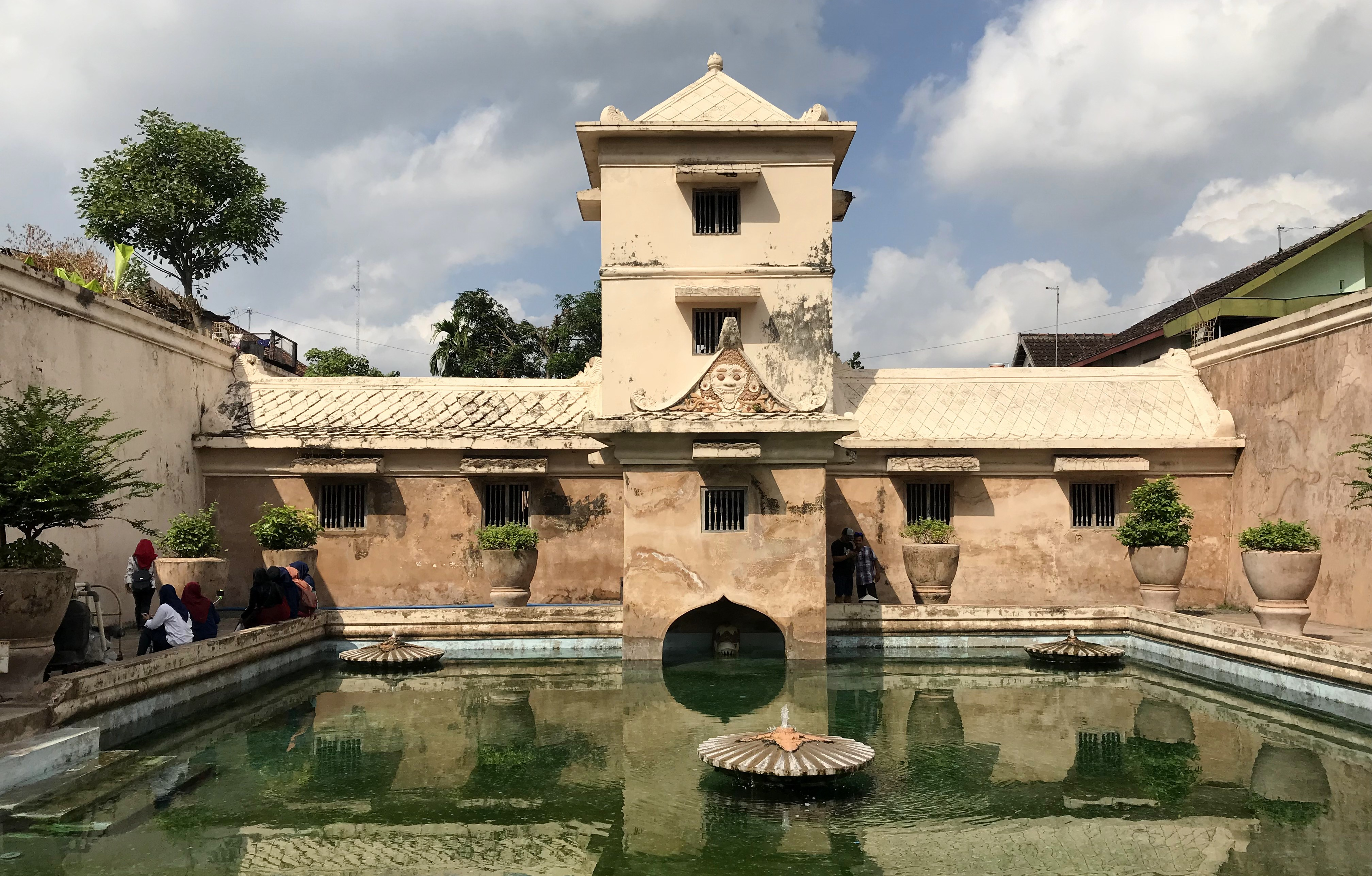 Taman Sari Water Castle